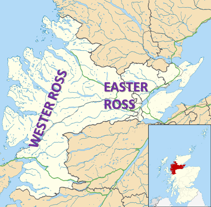 A map showing the approximate location of Easter and Wester Ross, in Scotland